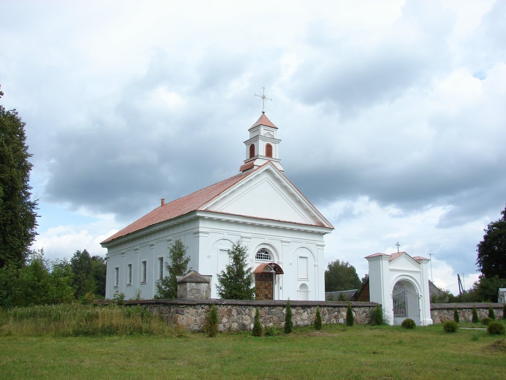 Providence of God Roman Catholic church in Rikava, Latvia